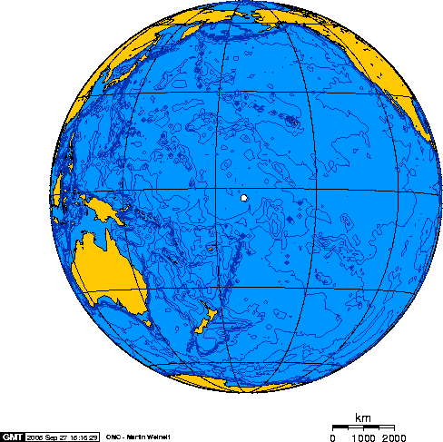 Orthographic projection centred on Kanton Island